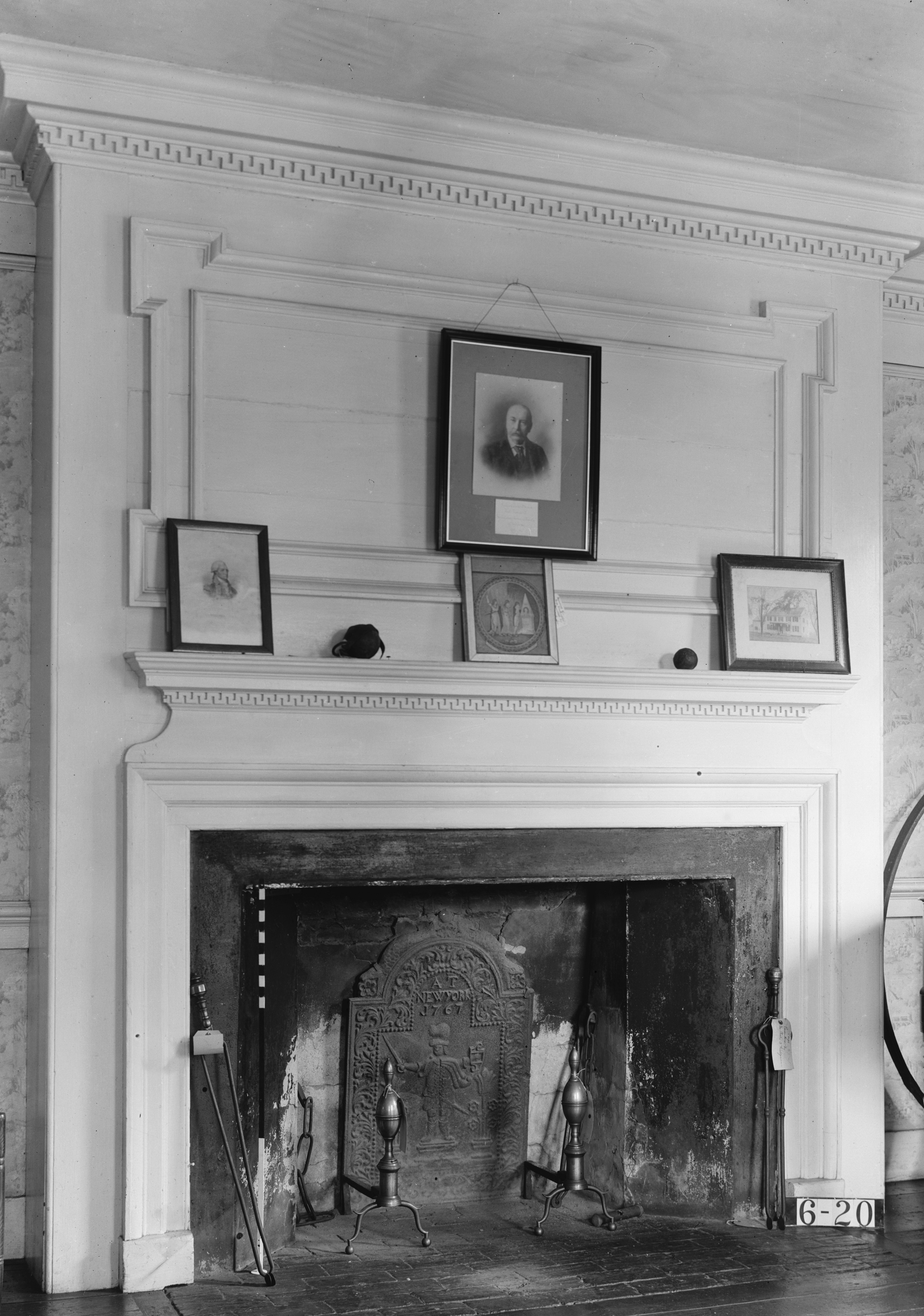 John Wallace House in Somerville, New Jersey at 38 Washington Pl. SomervilleListed on the NRHP in 1970. Photographed by HABS in 1936 (perhaps other dates as well)